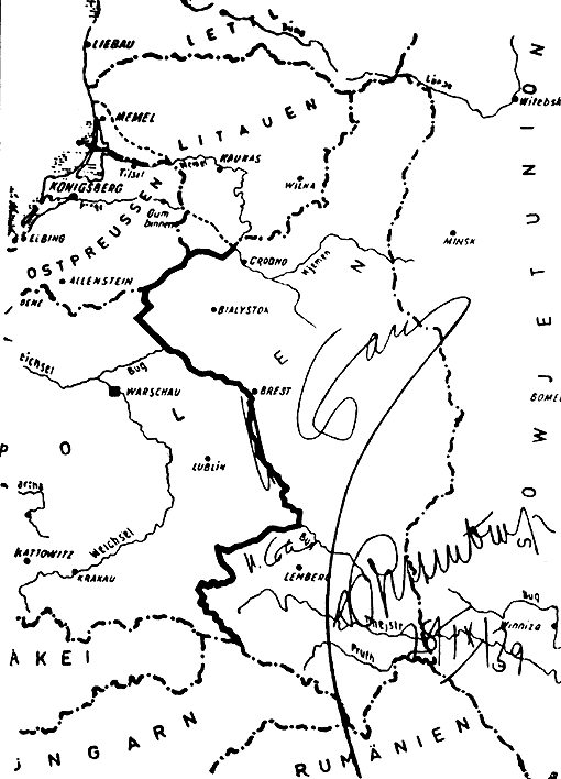 The map from the German–Soviet Treaty of Friendship, Cooperation and Demarcation showing the new German-Soviet border. The map is signed by Joseph Stalin and German Foreign Minister Joachim von Ribbentrop. Note: Genuine photo is color.